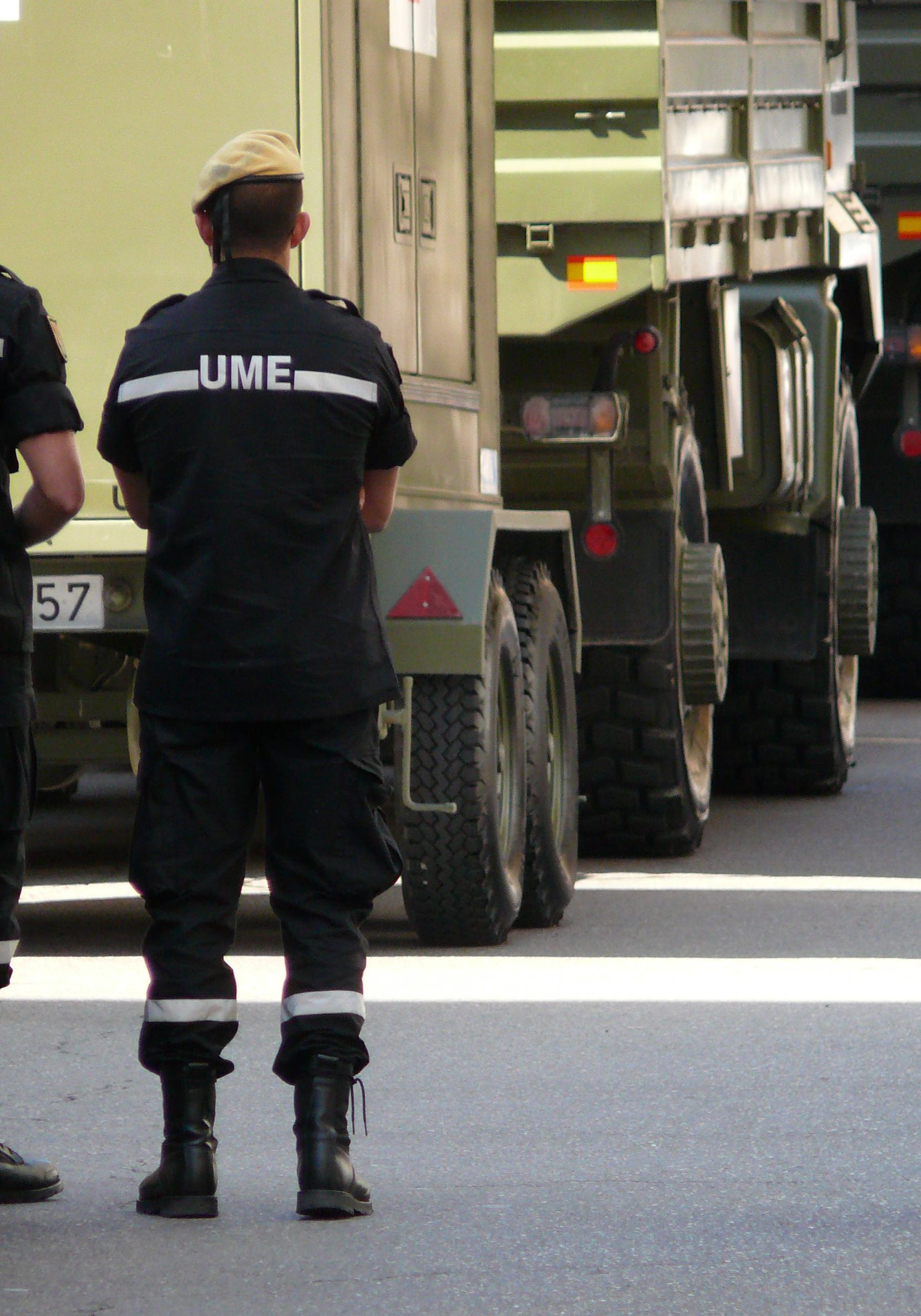 Emergency Military Unit (Spanish Armed Forces).